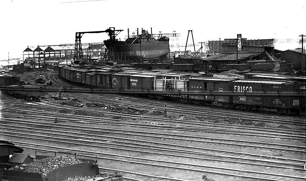 WWI -- Shipbuilding Toronto waterfront